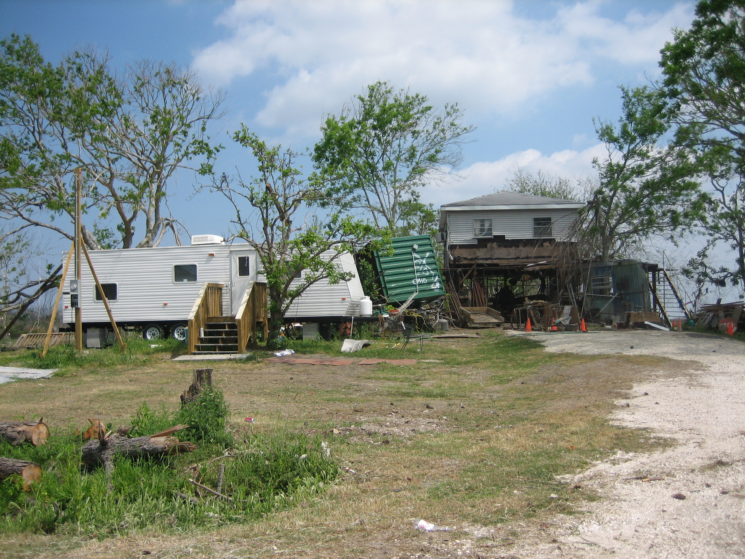 East St. Bernard Louisiana after Hurricane Katrina: Ruins of house in Yscloskey area with trailer